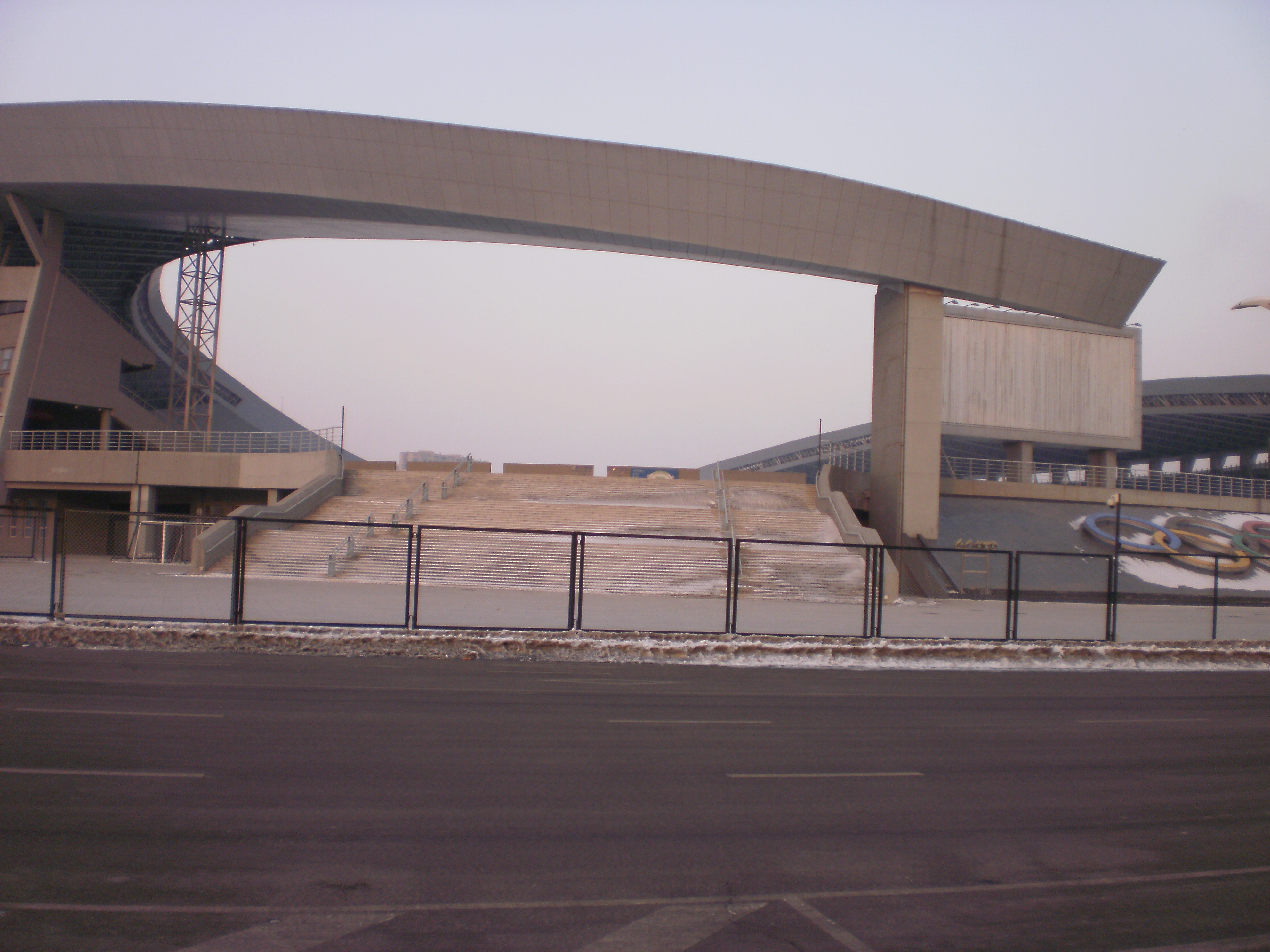 Tiexi Stadium, Shenyang, Liaoning, PRC